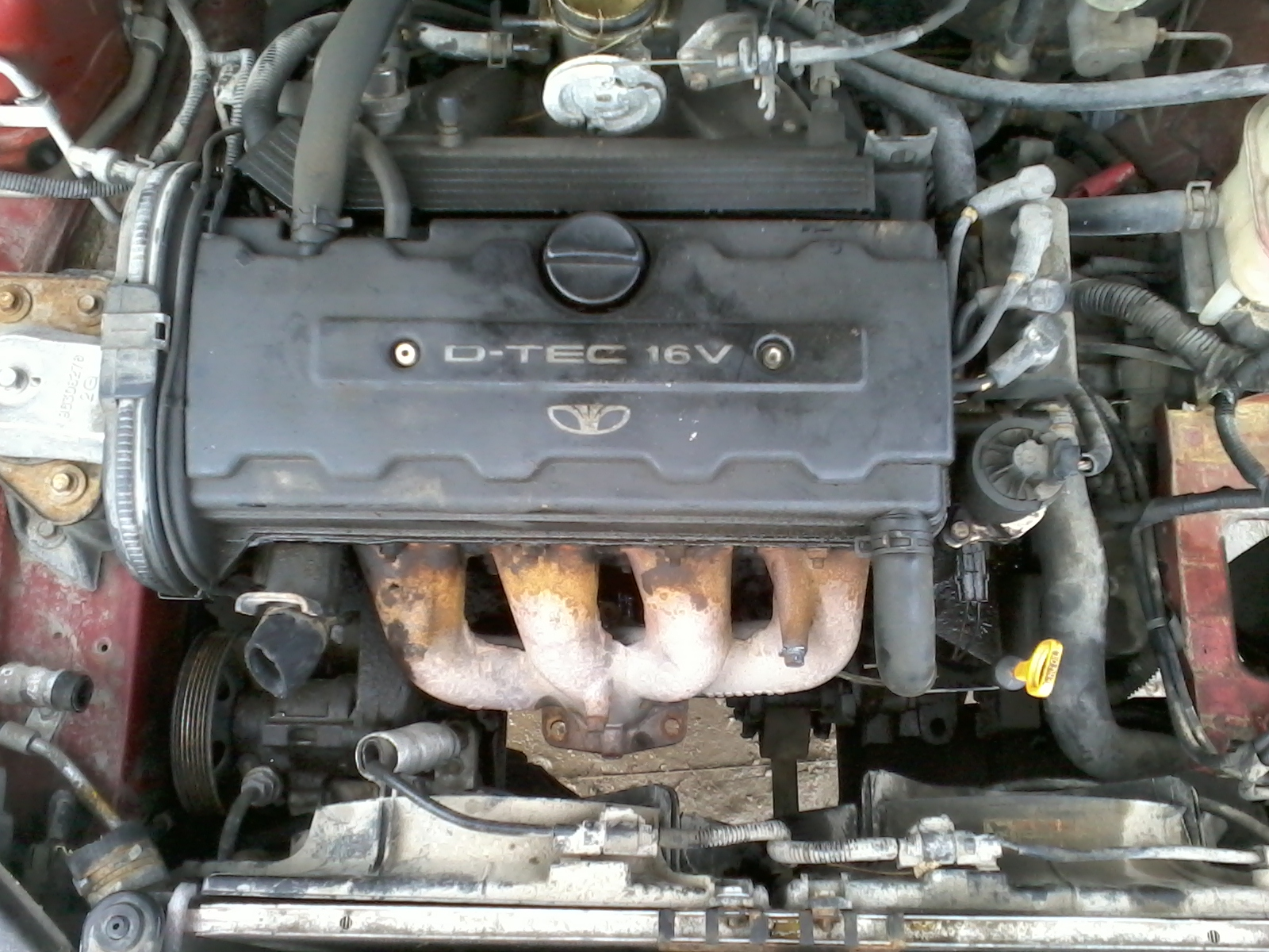 2000 Daweoo Nubira 2.0 L DOHC I4 engine VIN KLAJC52Z7YK543342